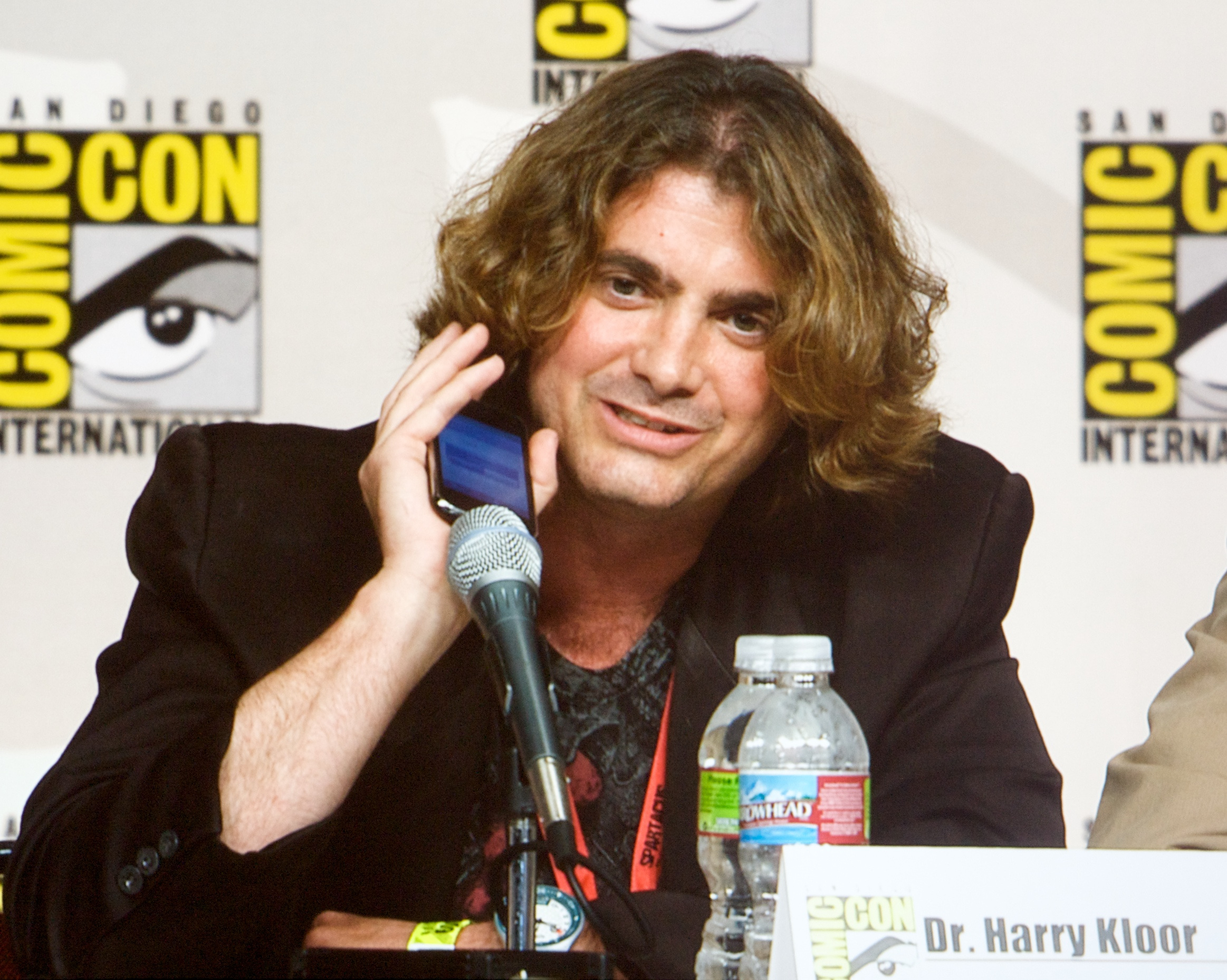 We caught the end of the panel for "Quantum Quest: A Cassini Space Odyssey" and were treated to Chris Pine rambling about the flim through Dr Kloor's iPhone to the crowd.